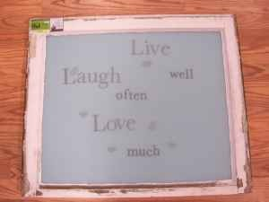 Arts and Crafts: Reuse ideas: Salvaged single-pane wood frame window turned decor by painting the window and adding stencils. The English inscription states: "Live ... Laugh ... well ... often ... Love ... much"